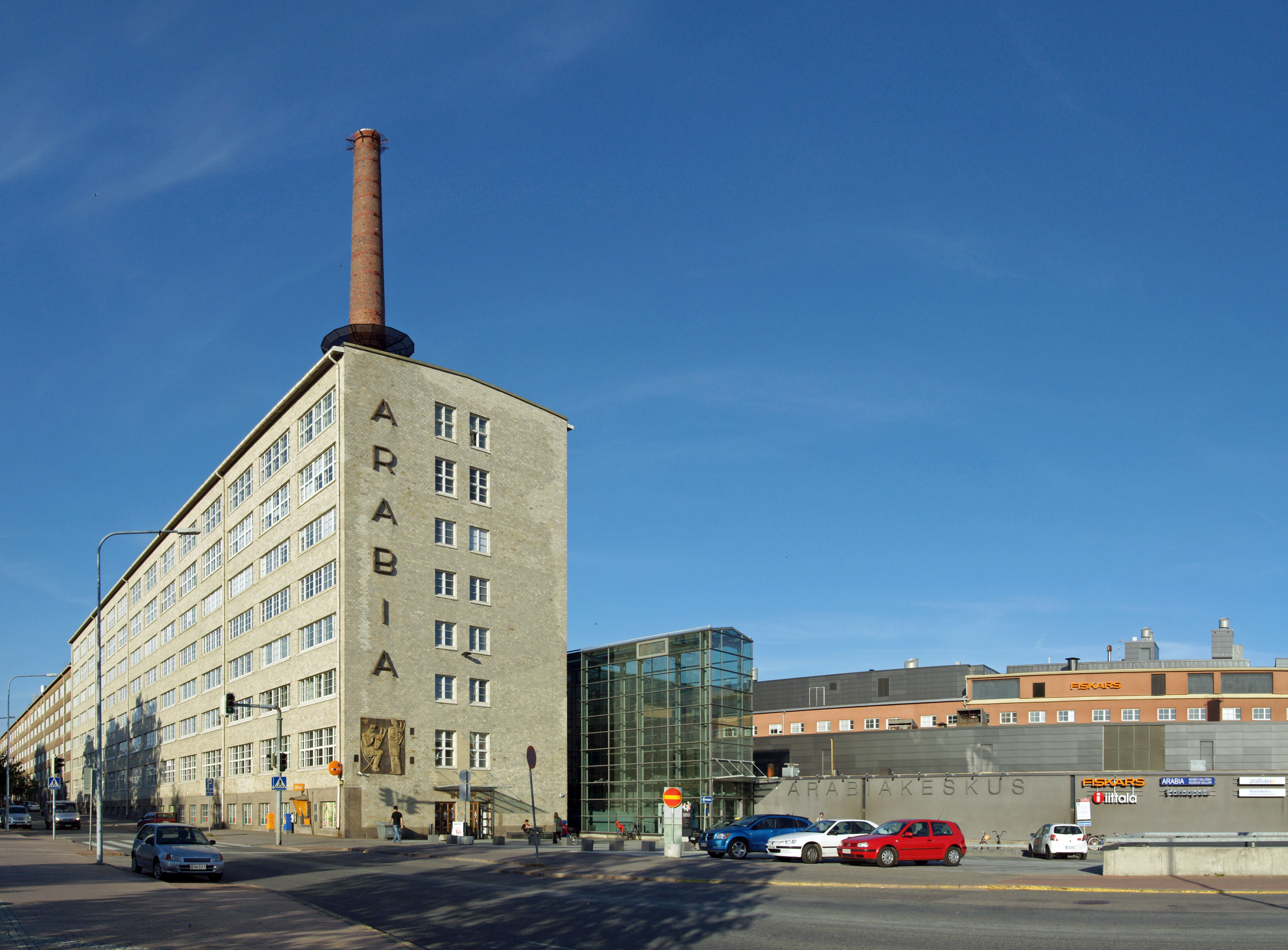 The Arabia factory building in Arabianranta, Helsinki, Finland, home to the University of Art and Design Helsinki.